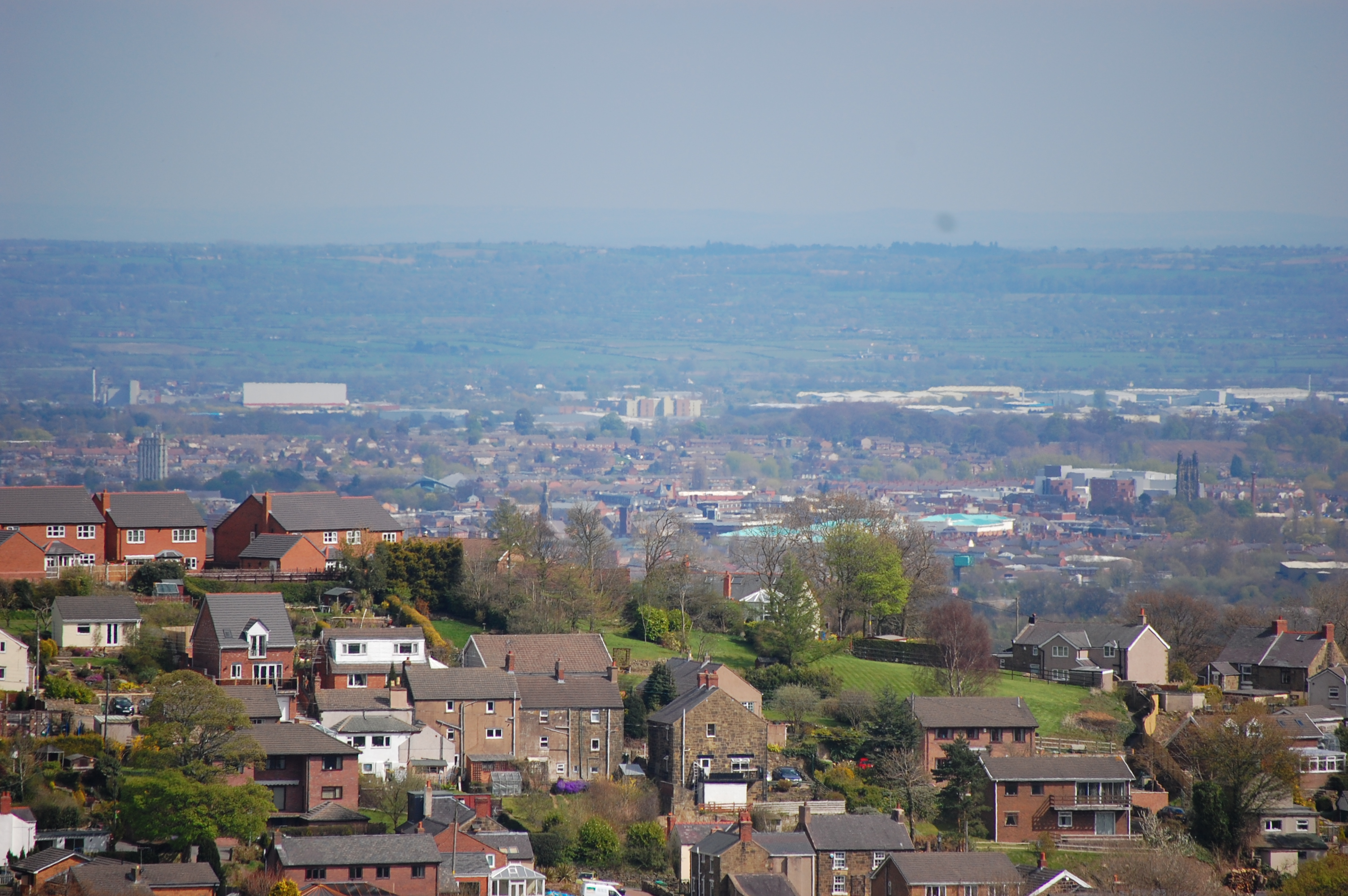 Own work, image of Coedpoeth, in relation to Wrexham and the Cheshire plain